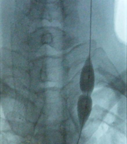 Treatment of CCSVI - endovascular angioplasty, balloon dilatation of stenosis of the left internal jugular vein.